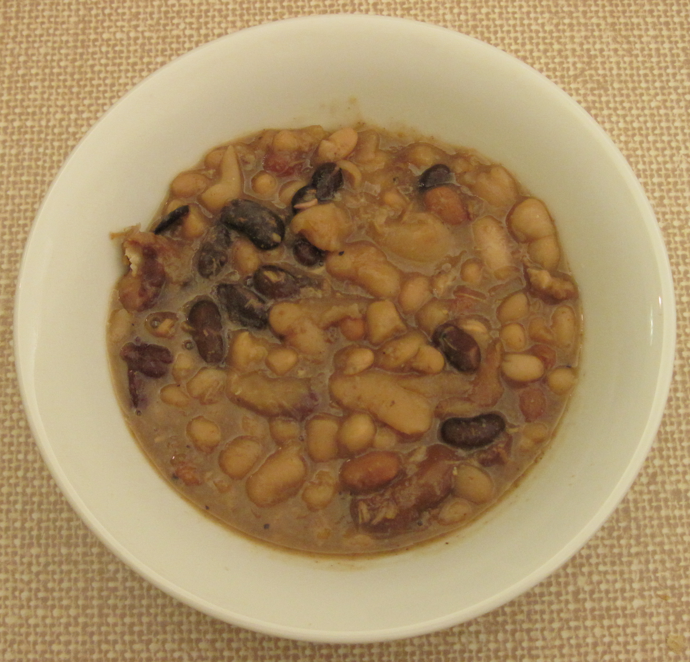 Jersey bean crock